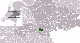 Locator map of Dutch municipalities in Gelderland (LocatieBeuningen.png)